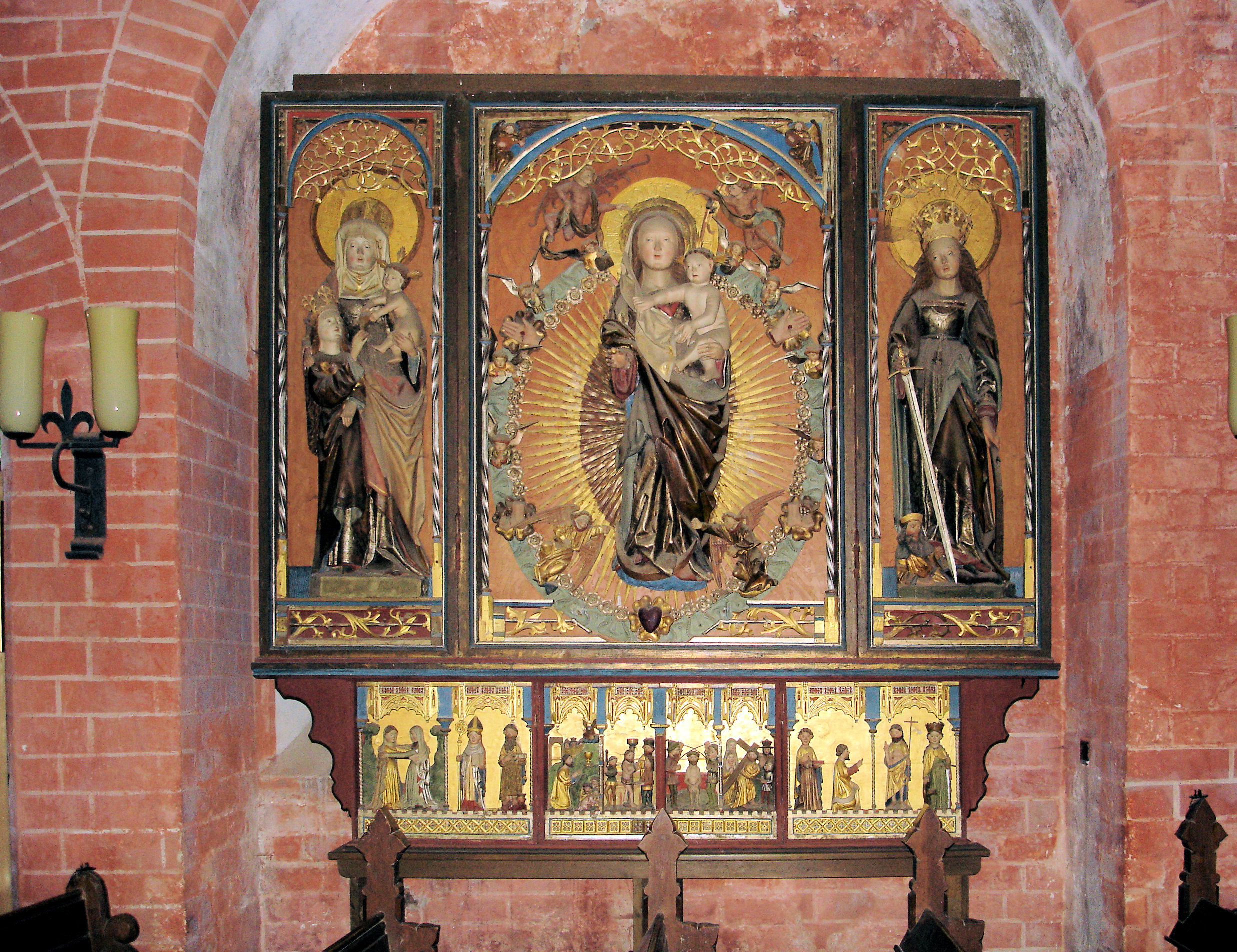 Altar - minster in Neukloster, Mecklenburg, Germany